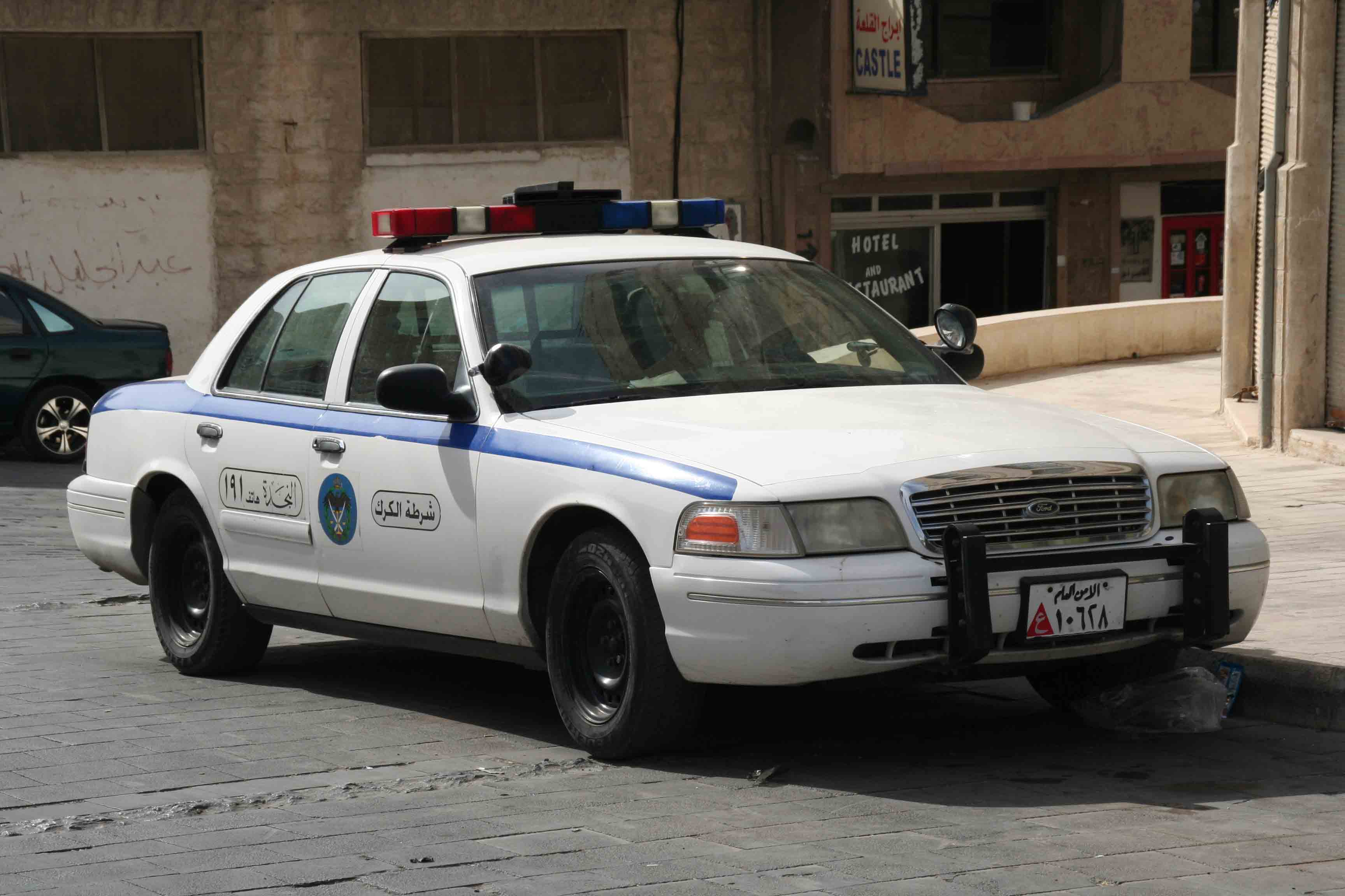 Jordanian Police Ford Crown Victoria in Karak, Jordan.